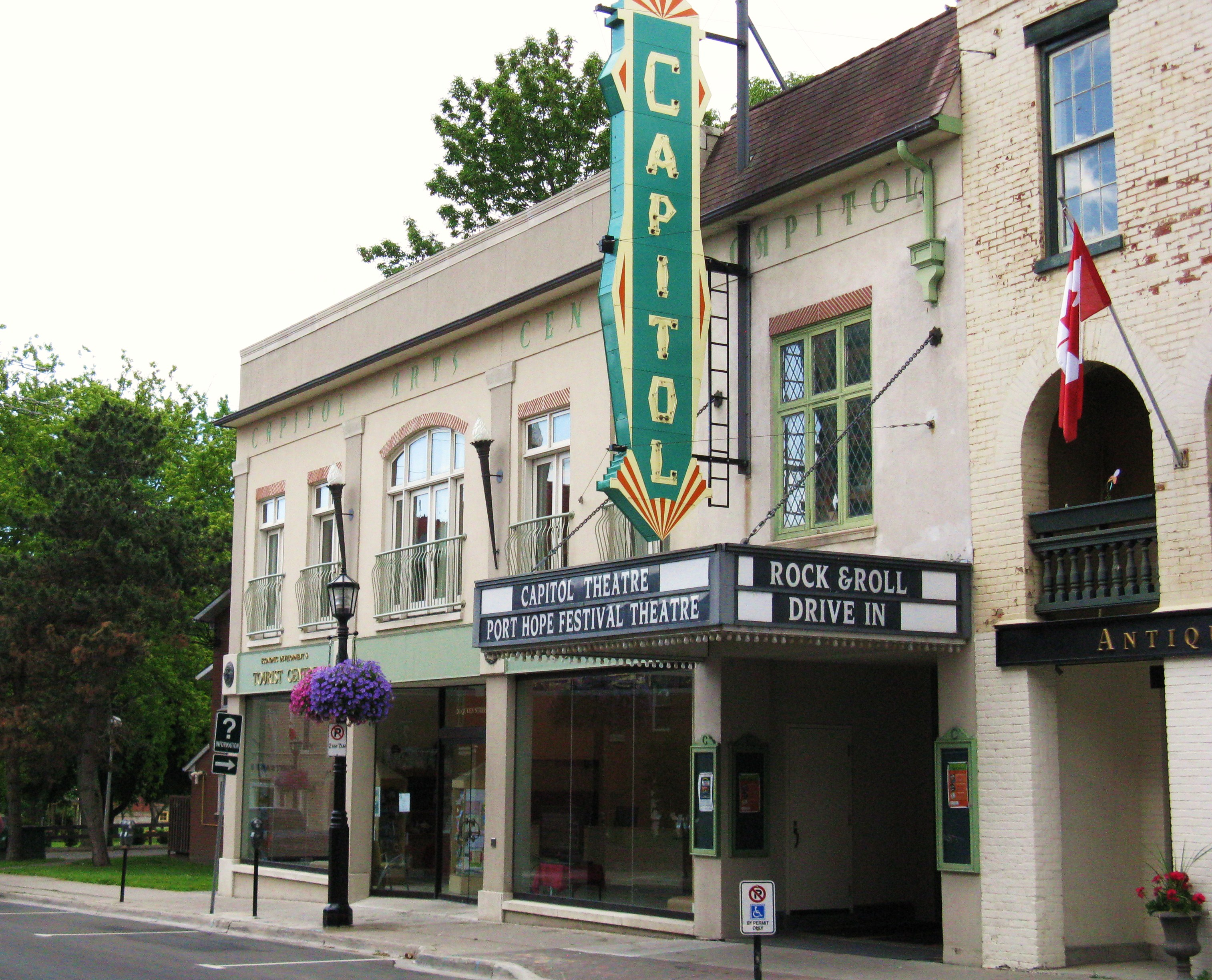 Capitol Theatre, Port Hope, Ontario Photo taken by myself, Yoho2001